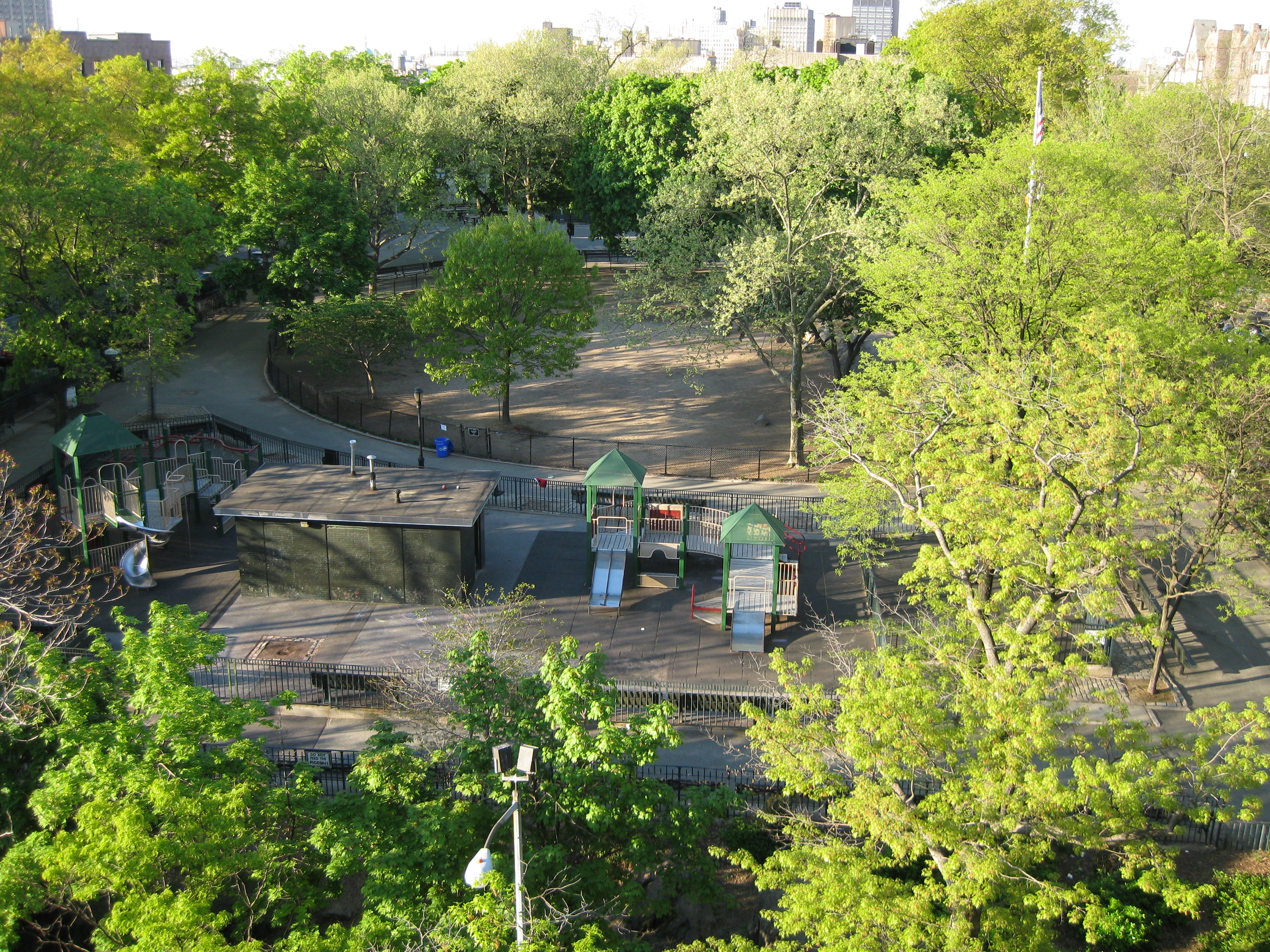 Southward view of Bennett Park, Washington Heights, NY, from apartment on north border (185 St).